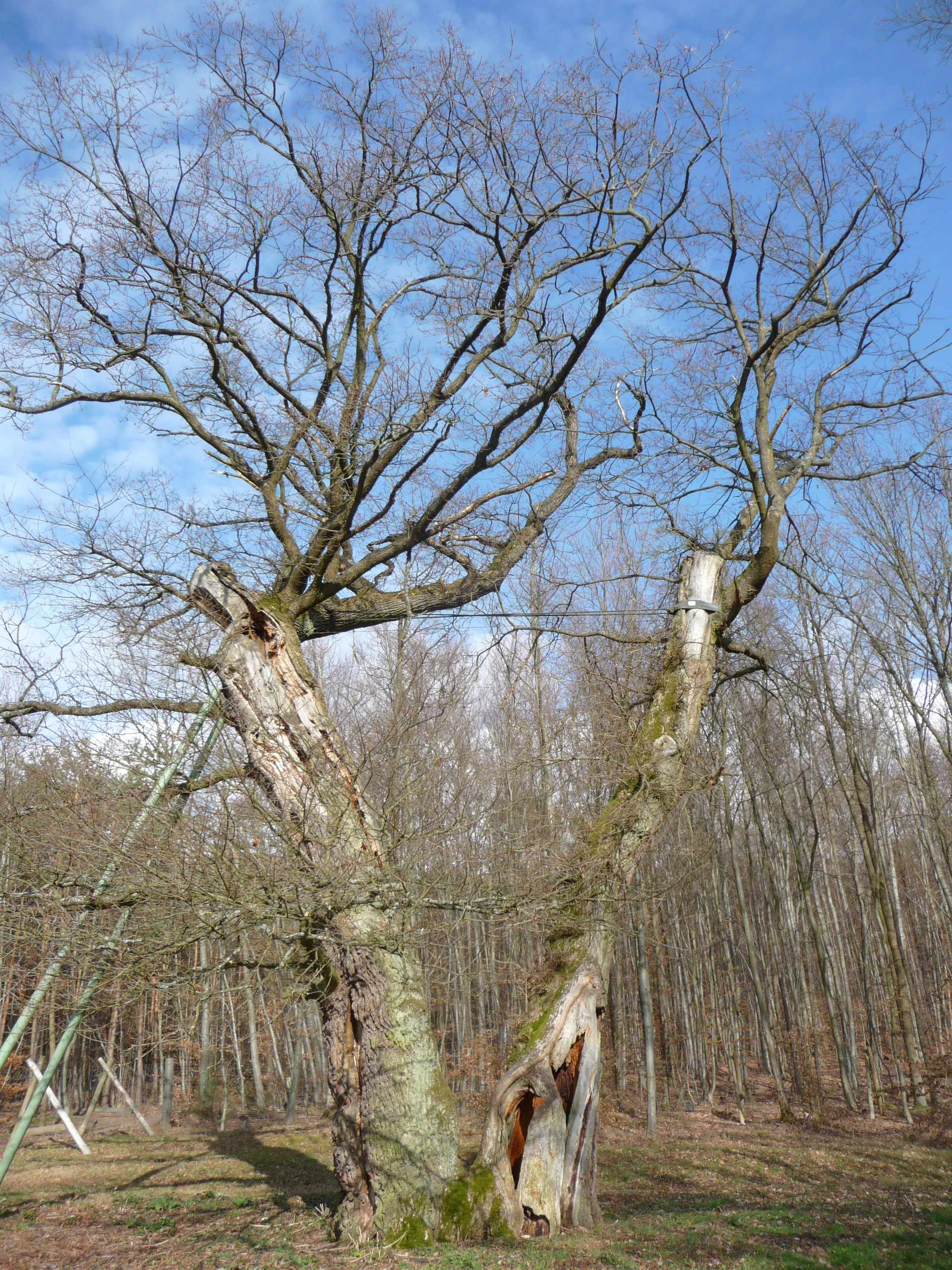 Helincheneiche